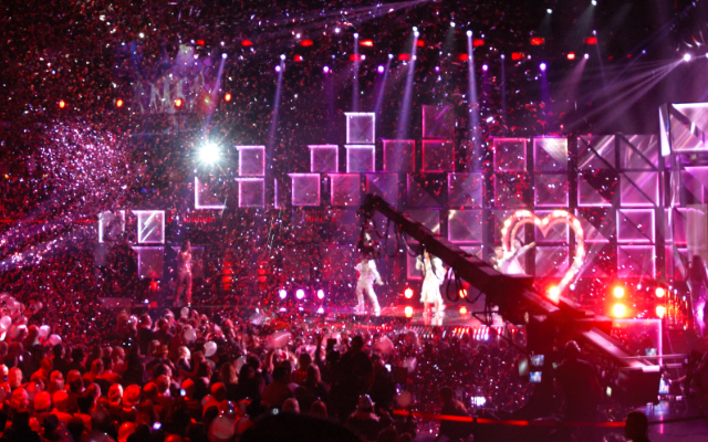 Stage of the Melodifestivalen 2016.